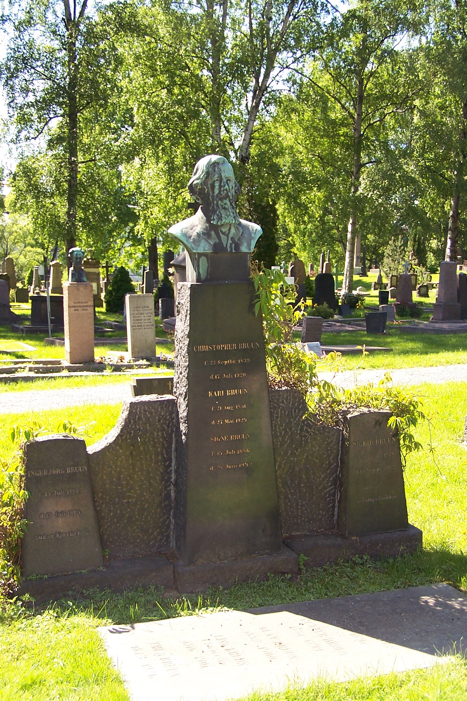 Tomb of Christopher Arnt Bruun at Vår Frelsers gravlund, Oslo